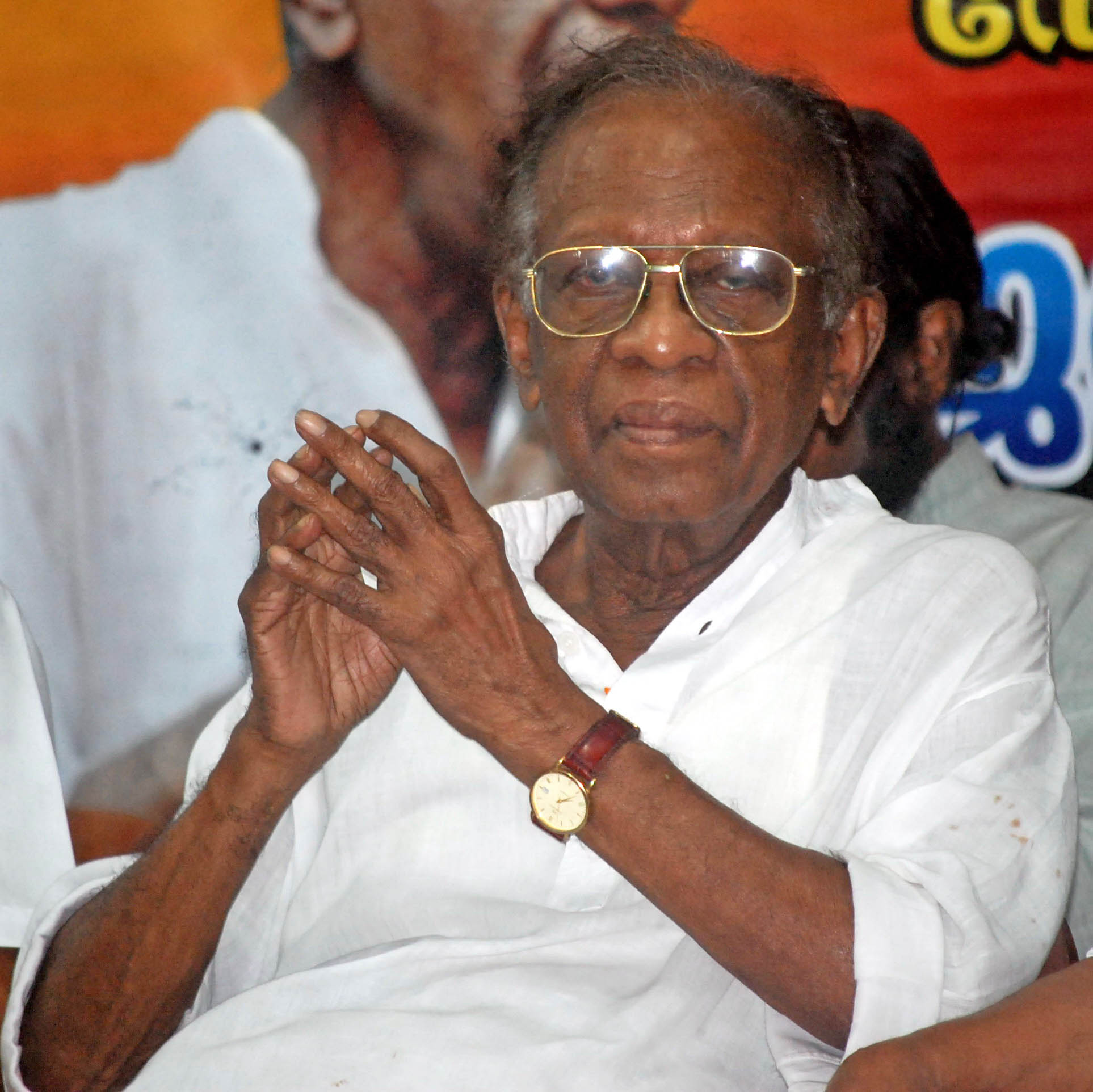 Sukumar Azhikode, a writer, critic and orator, acknowledged for his contributions to Malayalam and insights on Indian philosophy. Taken during a function at Azhikode, his birthplace to honor him.